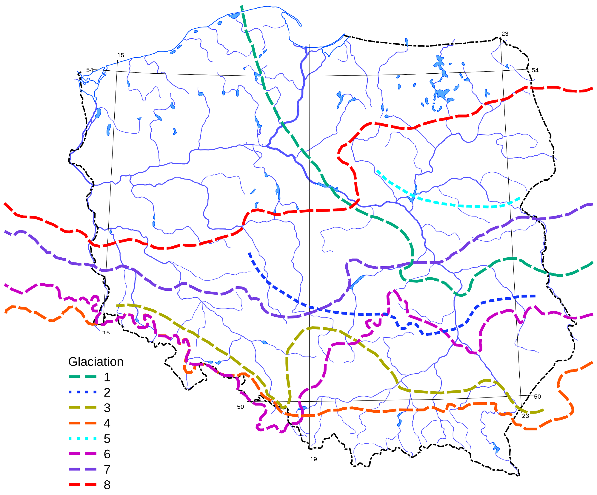 Pleistocene glacial periods in Poland. Created with Quantum GIS 1.6.0, source files (.qgs)